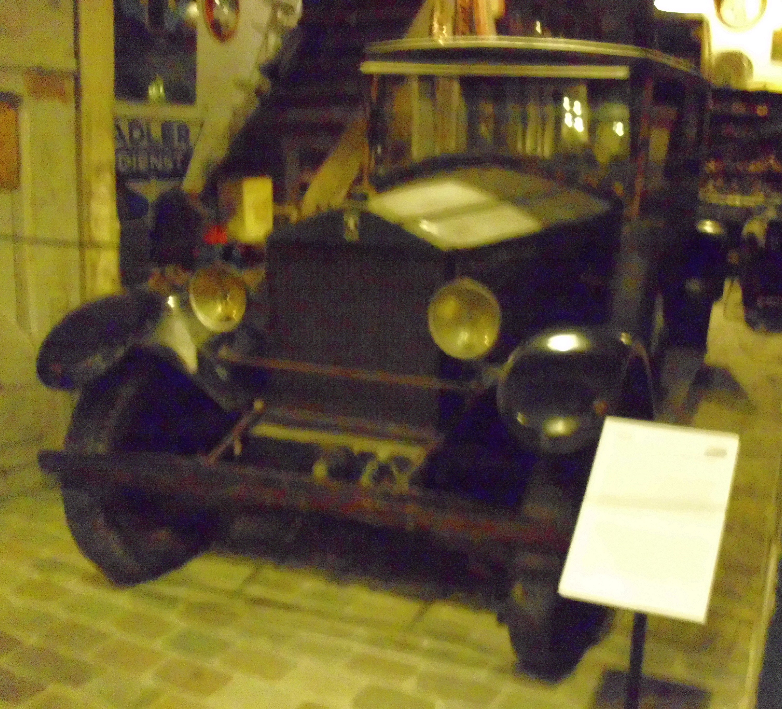 Sizaire Frères 4 RI 1924 (Country of origin: France)